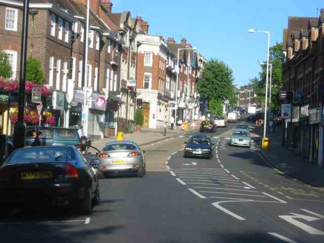 Town centre street scene Northwood. The railway station is at the top of the slope.